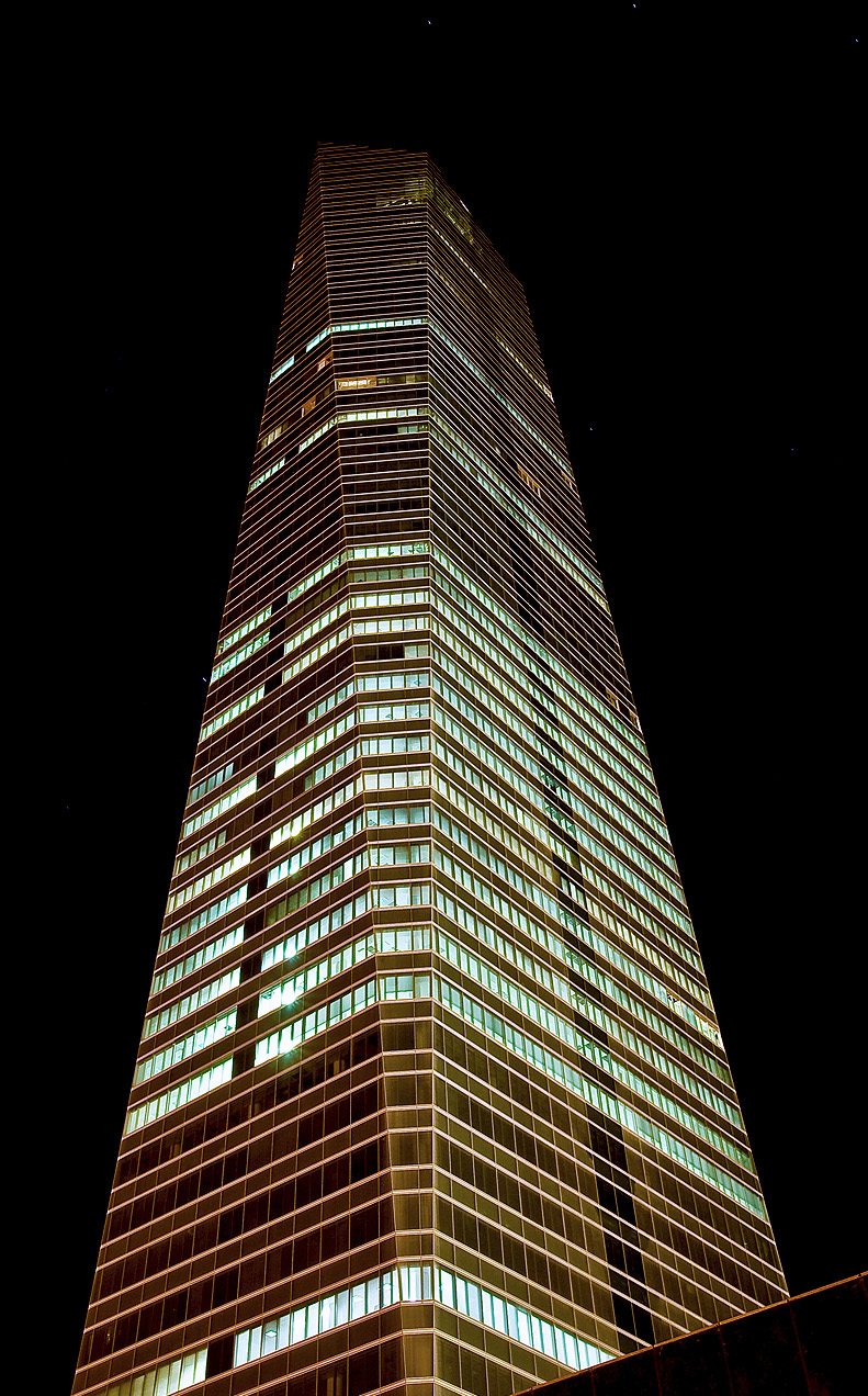 Night view of Torre de Cristal ("Crystal Tower") in Cuatro Torres Business Area (Madrid, Spain).